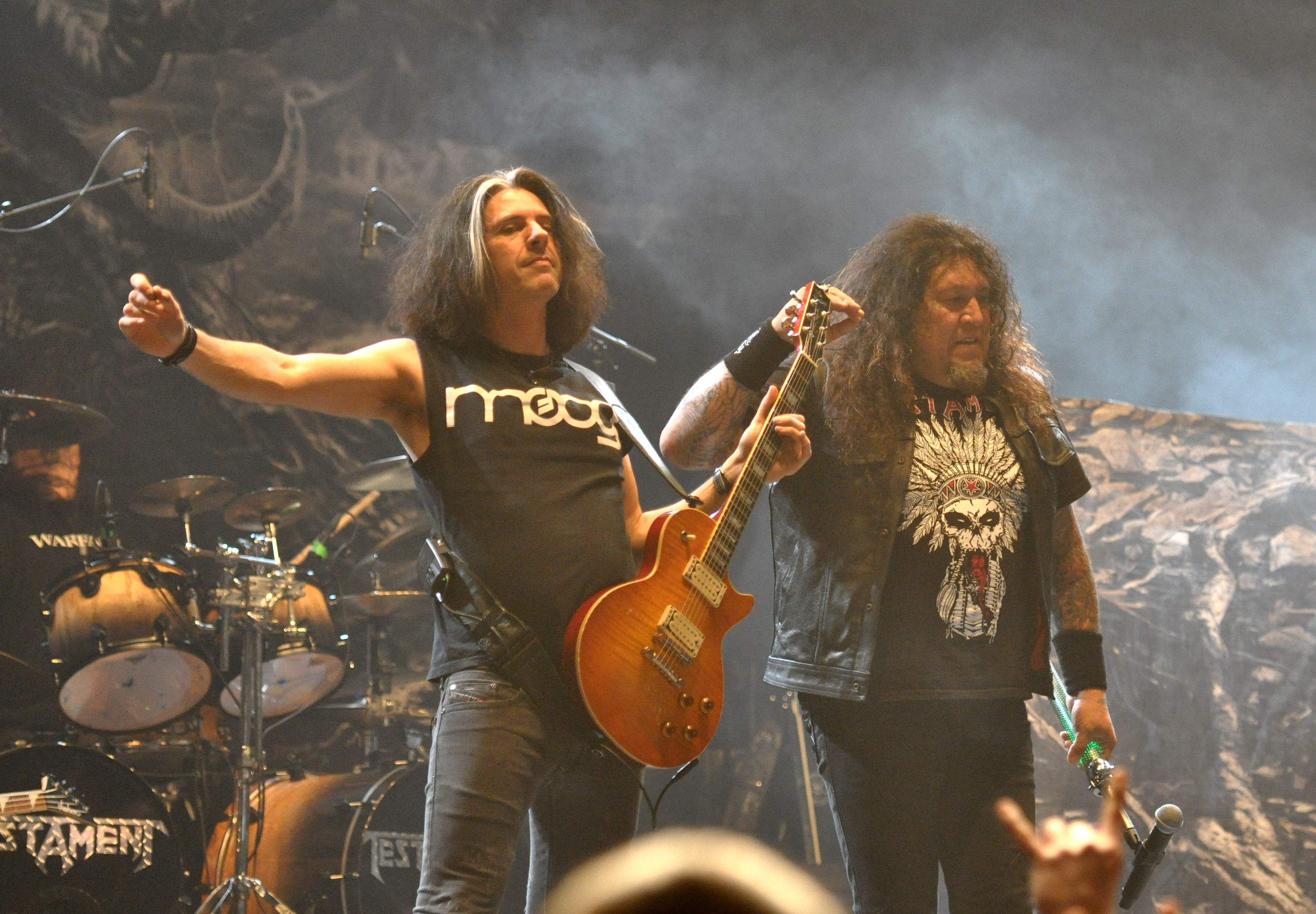 Testament at Paspop 2013, Schijndel, NL